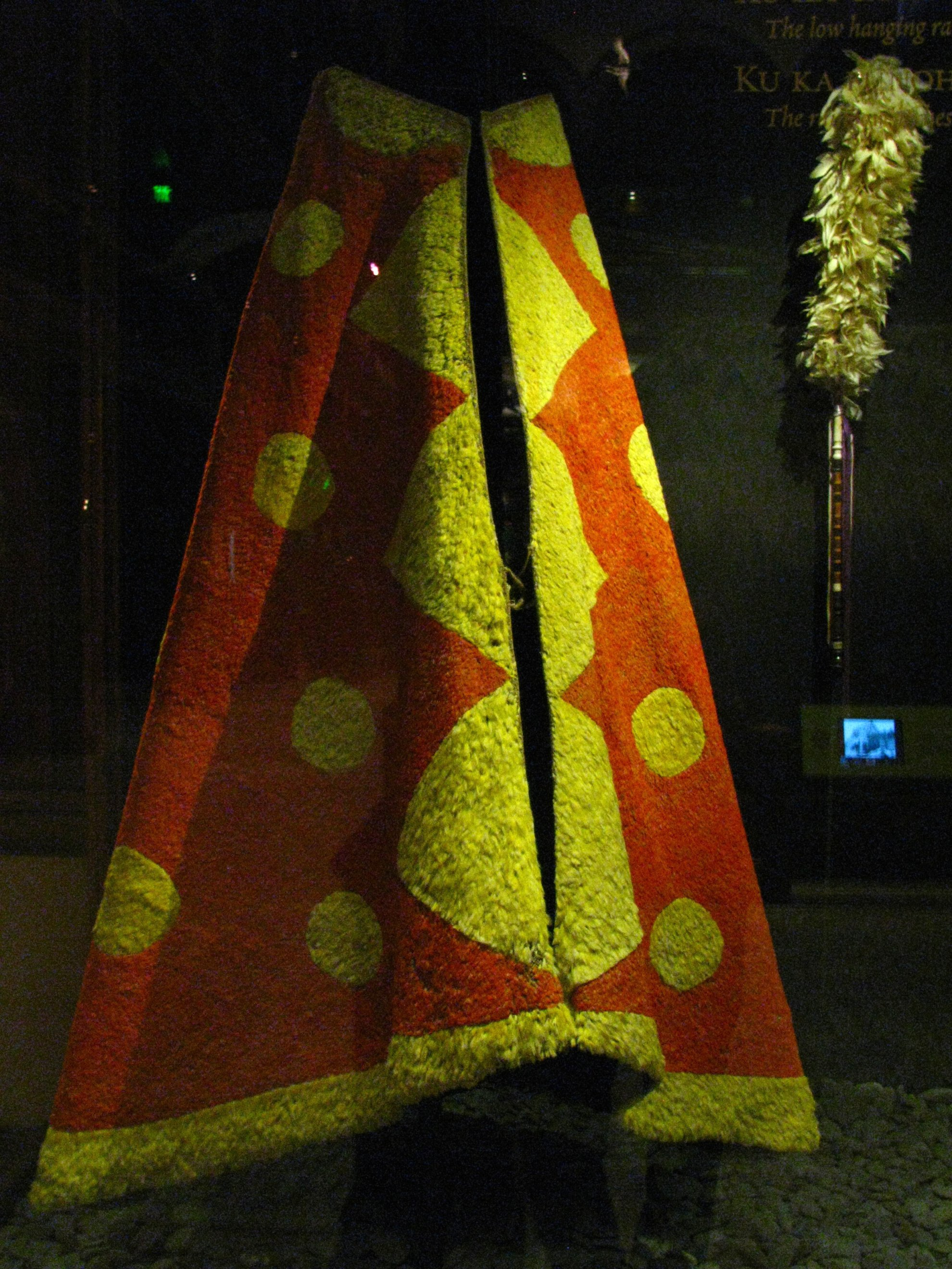 ʻAhu ʻula are feathered capes. There about about 160 existing today in museums throughout the world. The largest collection is at the Bishop Museum. This ʻahu ʻula was made from the red feathers of ʻiʻiwi (Vestiaria coccinea) and the yellow feathers from ʻōʻō (Moho spp.) attached to the netting of olonā (Touchardia latifolia) fiber. Bishop Museum, Honolulu, Hawaiʻi